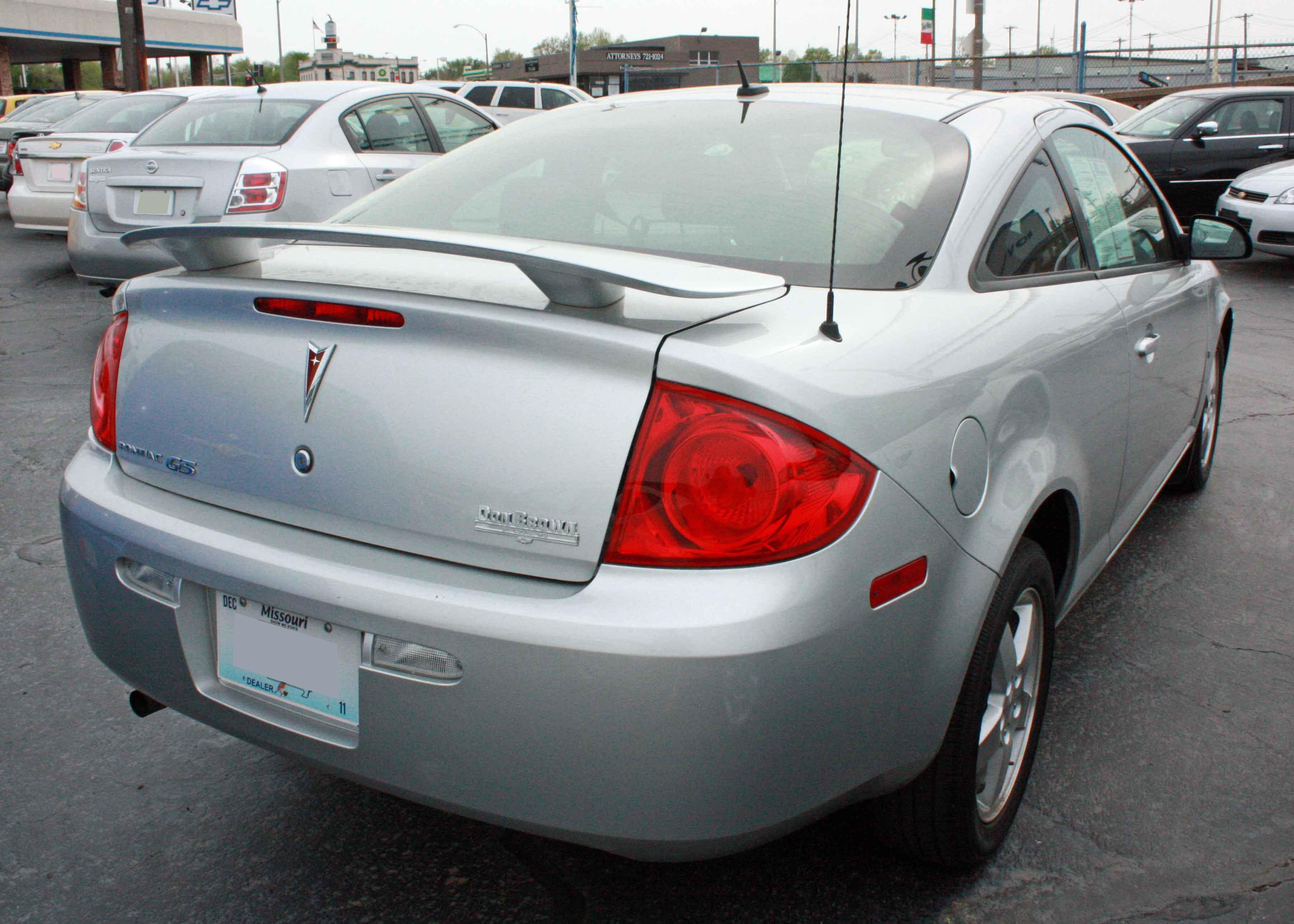 Rear view of the Pontiac G5 photographed in St. Louis, Missouri